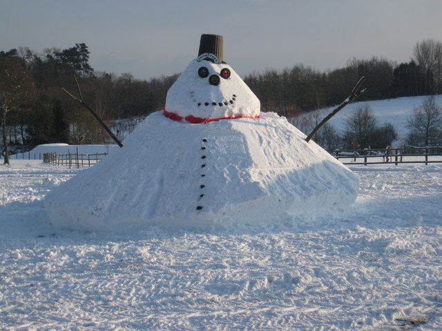 Priory Farm Snowman - South Nutfield Giant Snowman opposite entrance to Priory Farm Shop, South Nutfield